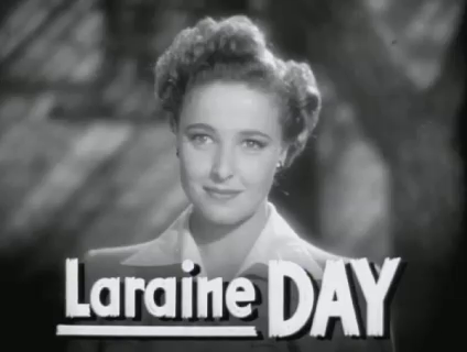 Laraine Day in The Bad Man, by Richard Thorpe (1941)